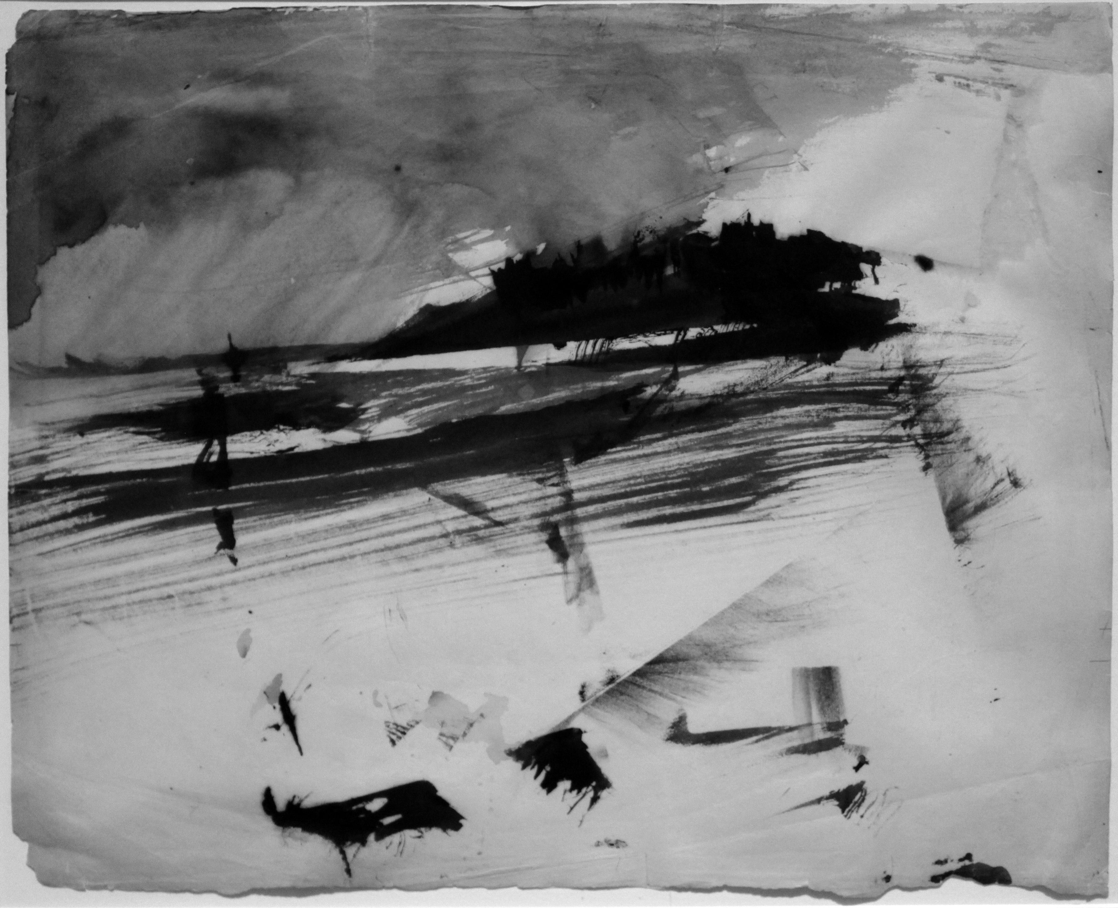 Evacuation of an island